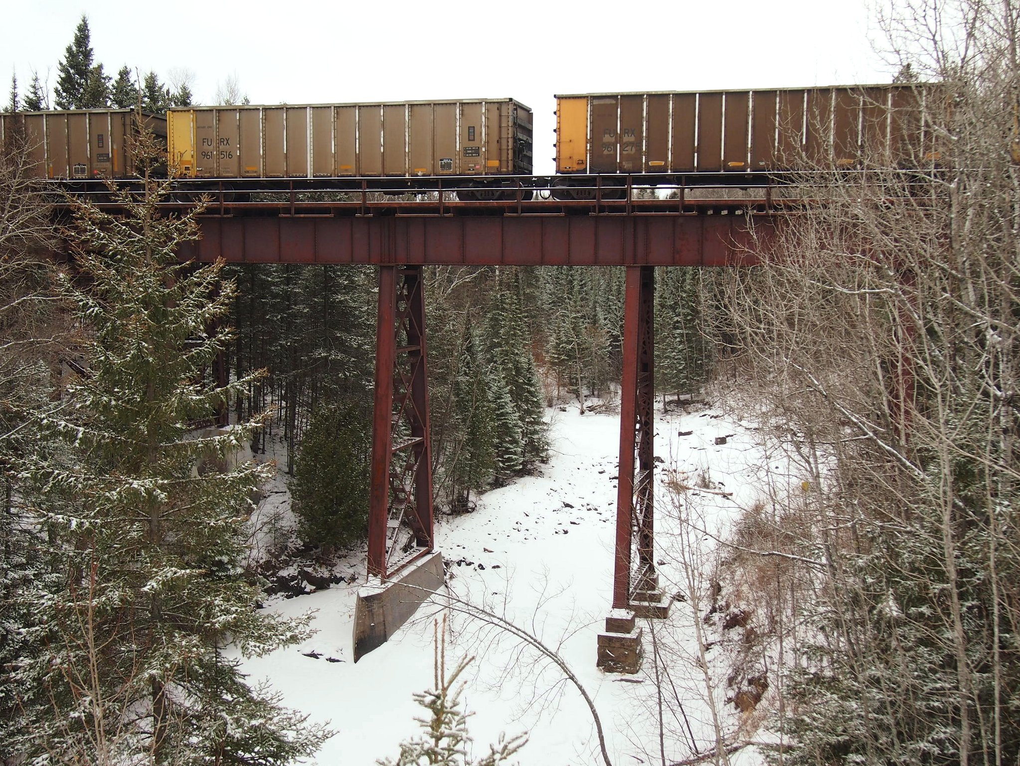 Winter view of the Little Sucker River and railway bridge from the North Shore Scenic Drive, St Louis County, Minnesota, USA.